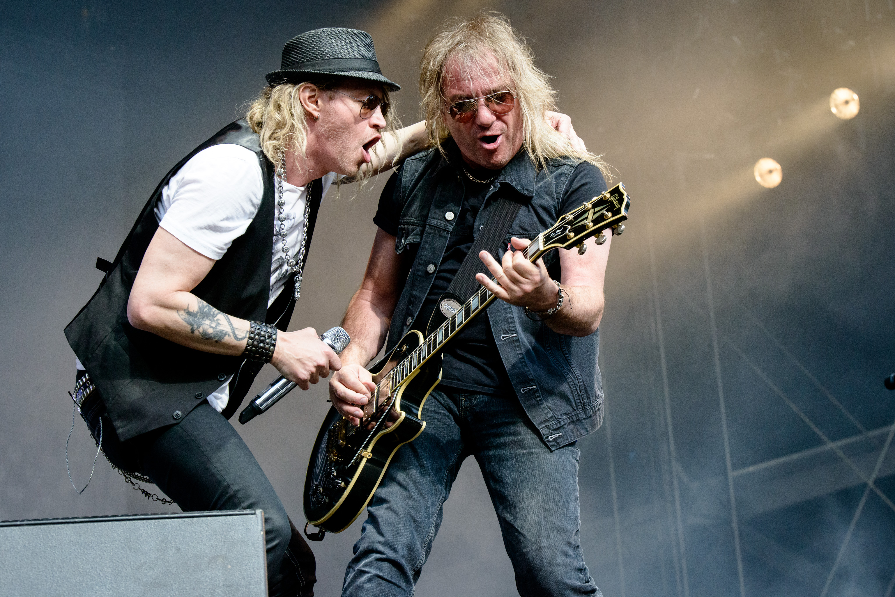 Gotthard Live @ Rockavaria 2016